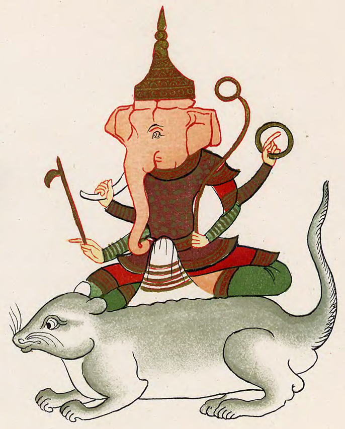 Ganesha (Maha Peinne) in Burmese representation